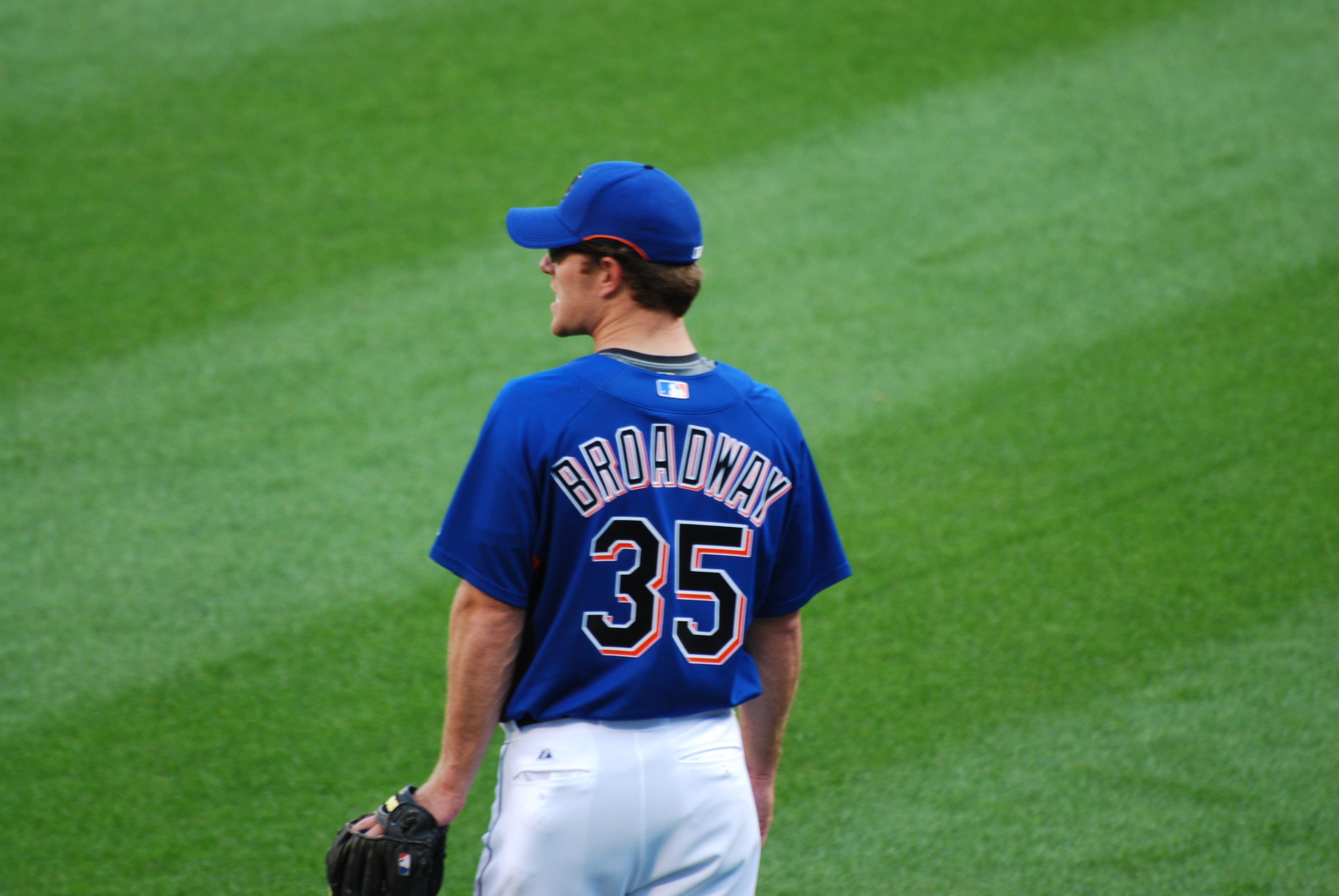 Lance Broadway